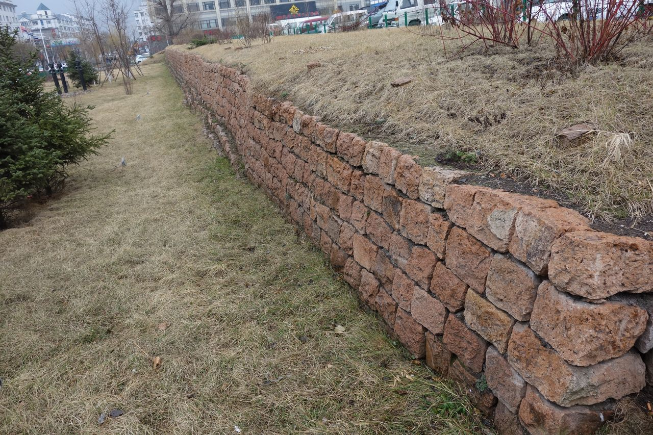 Wall of Gungnae Fortress (GuoNei Fortress)